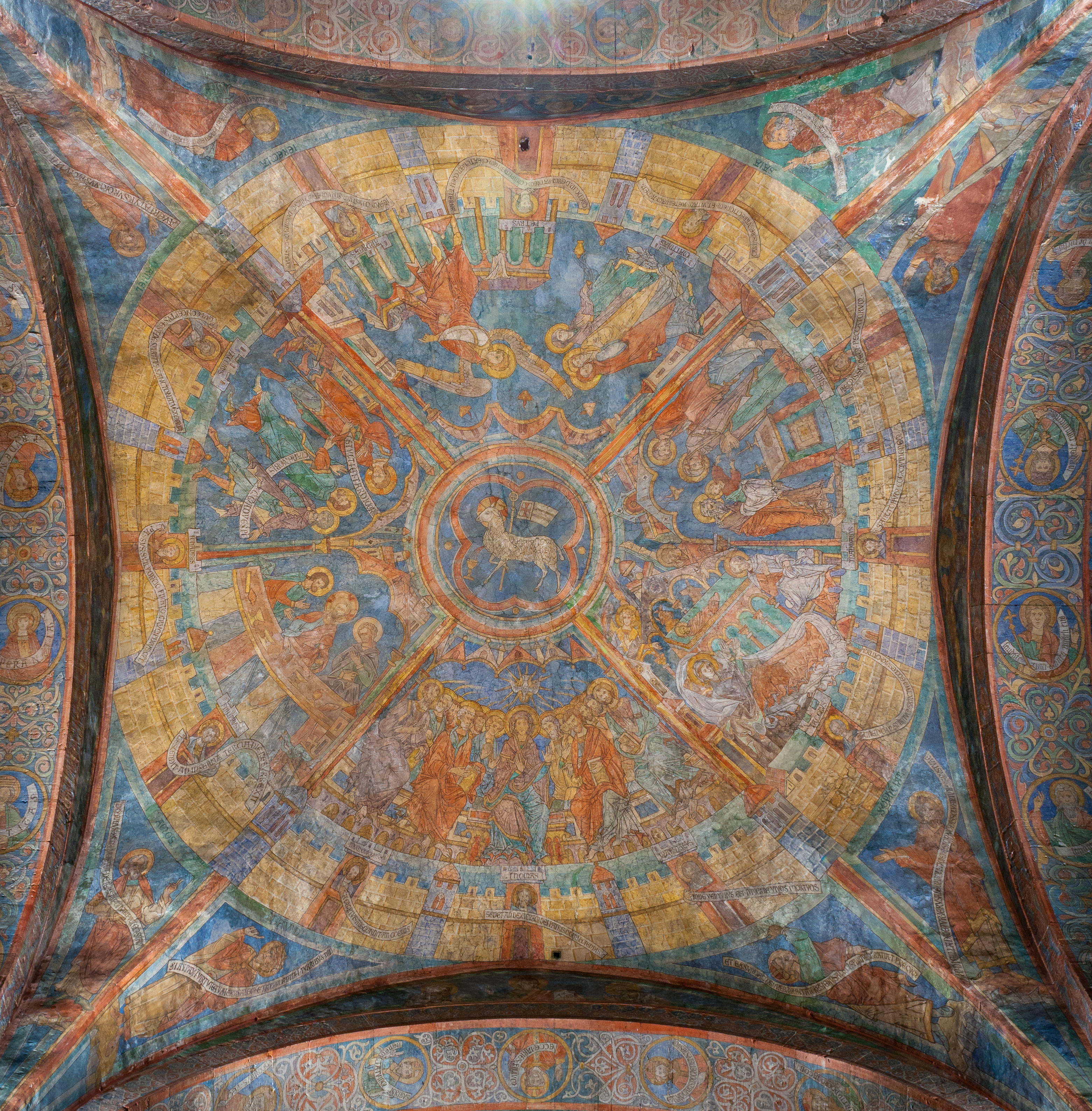 Brunswick Cathedral St. Blasii, painting in the Crossing. The romanesque nave of the Brunswick Cathedral was built between 1173 and 1226. After many additions over the centuries, the original paintings from the middle of the 13th century were rediscovered in 1845. As the conservators in these days felt free to complete missing parts in a historism way, not all the paintings are in their original status. A more detailed description you will find at Braunschweiger Dom Saecco-Malereien (german). The pictured painting in the crossing shows the celestial Jerusalem. Further famous artefacts in this cathedral are a Seven-armed Candelabrum of 4,80m and the Imervard Cross, both from the second half of the 12th century. Nowadays (2017/05) there are intentions to place a second organ in the crossing. If this should happen, the days of seeing the full paintings of crossing and transept will be gone ...